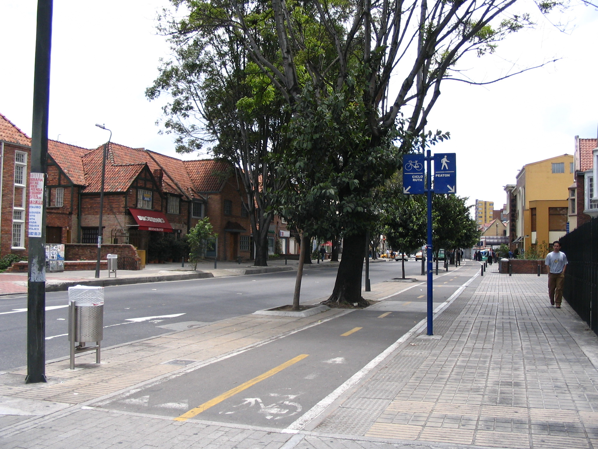 Picture shows a bike path or cicloruta in Chapinero, Bogotá.